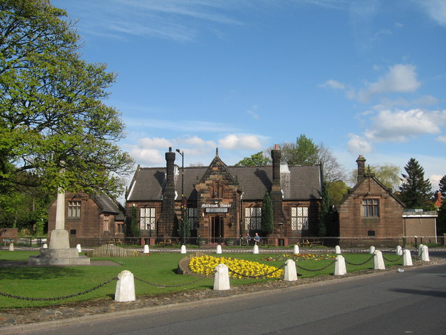 Knowsley Village Green and School Facing the village green and originally Knowsley Church of England School, this old sandstone building is now a restaurant.